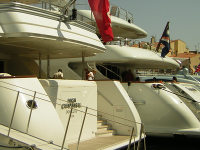 Luxury yachts in Saint-Tropez, High Chaparral 2006